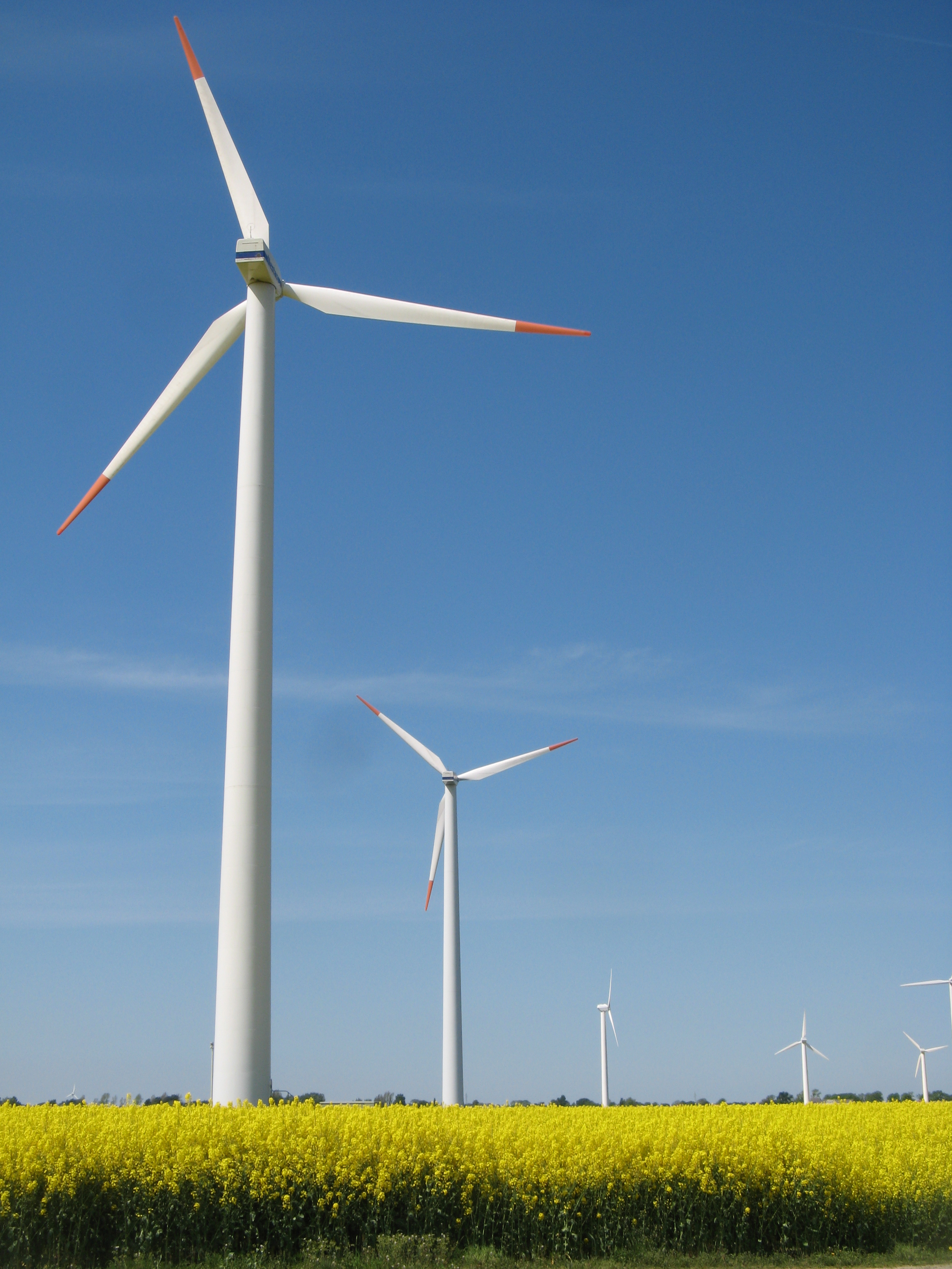 Wind turbines in Schülp, Holstein, Germany